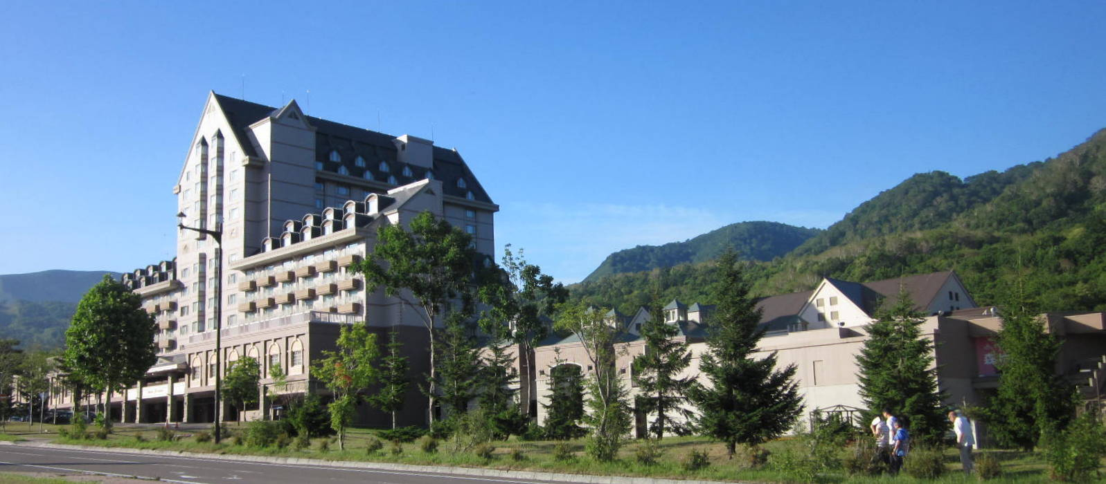 Hotel Piano (now The Kiroro, a Tribute Portfolio Hotel) at the Kiroro Resort in Akaigawa Village, Hokkaido, Japan